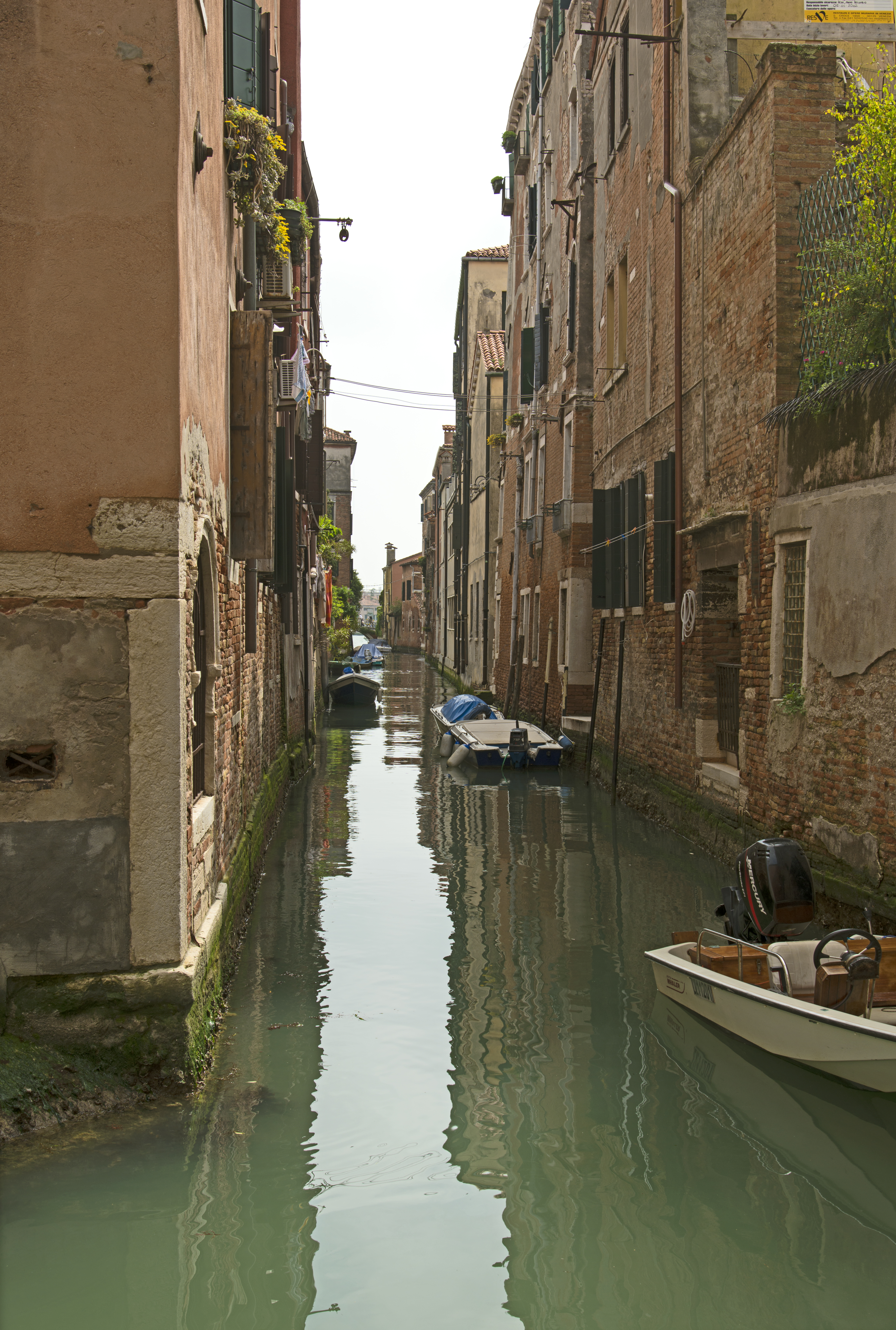 Rio Piccolo del Legname Venice